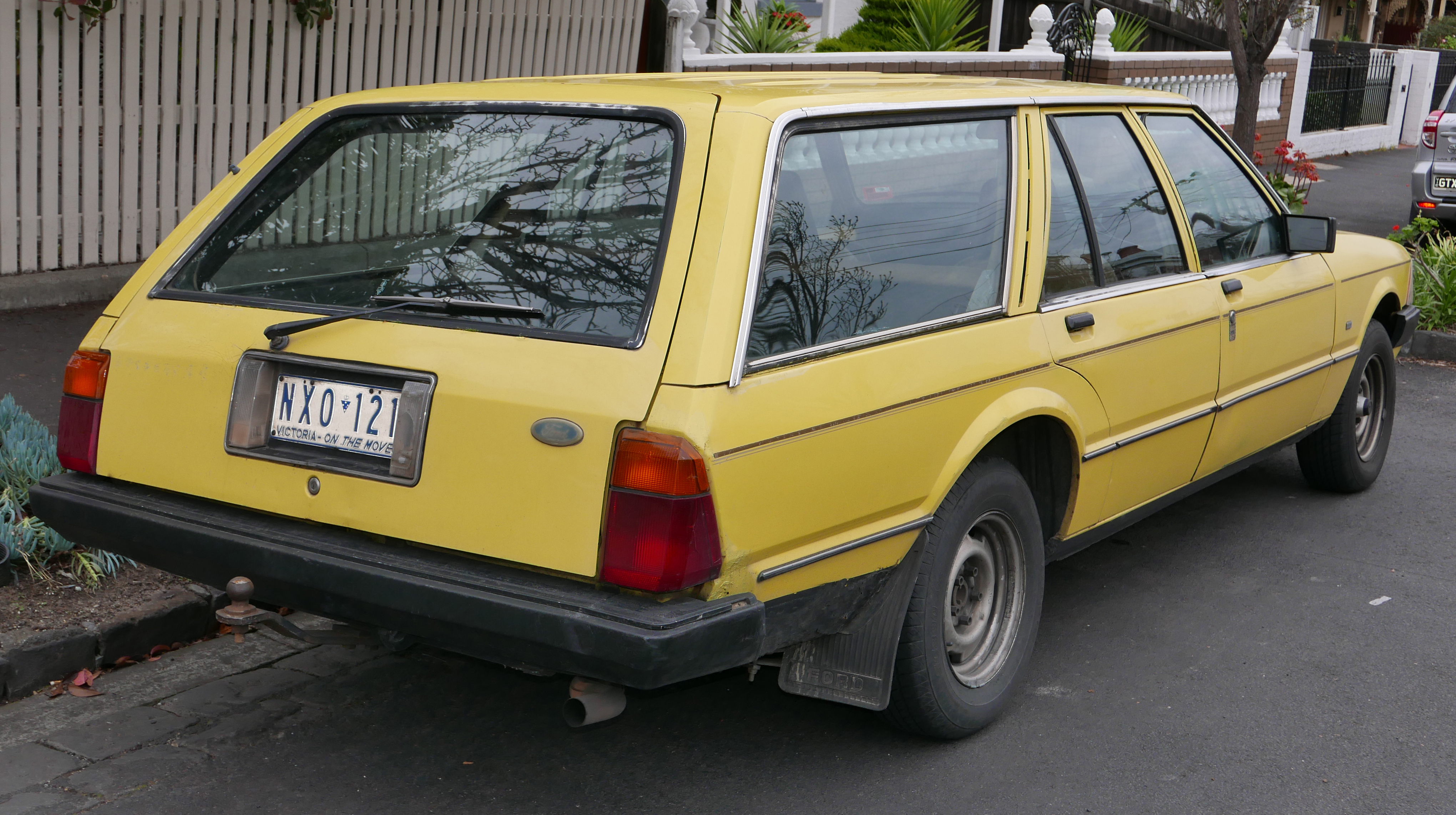 1981 Ford Falcon (XD) GL station wagon. Photographed in Toorak, Victoria, Australia. This vehicle is still on the road as of 19 July 2018. Vehicle registration enquiry results Jurisdiction Victoria Registration NXO121 Chassis code JG31YE29070C Engine code AL2JYB80502C Compliance date 1981-12 Year of manufacture 1982 (not a typo)